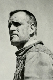 Photograph of Carl_F._Ullrich Carl Ullrich